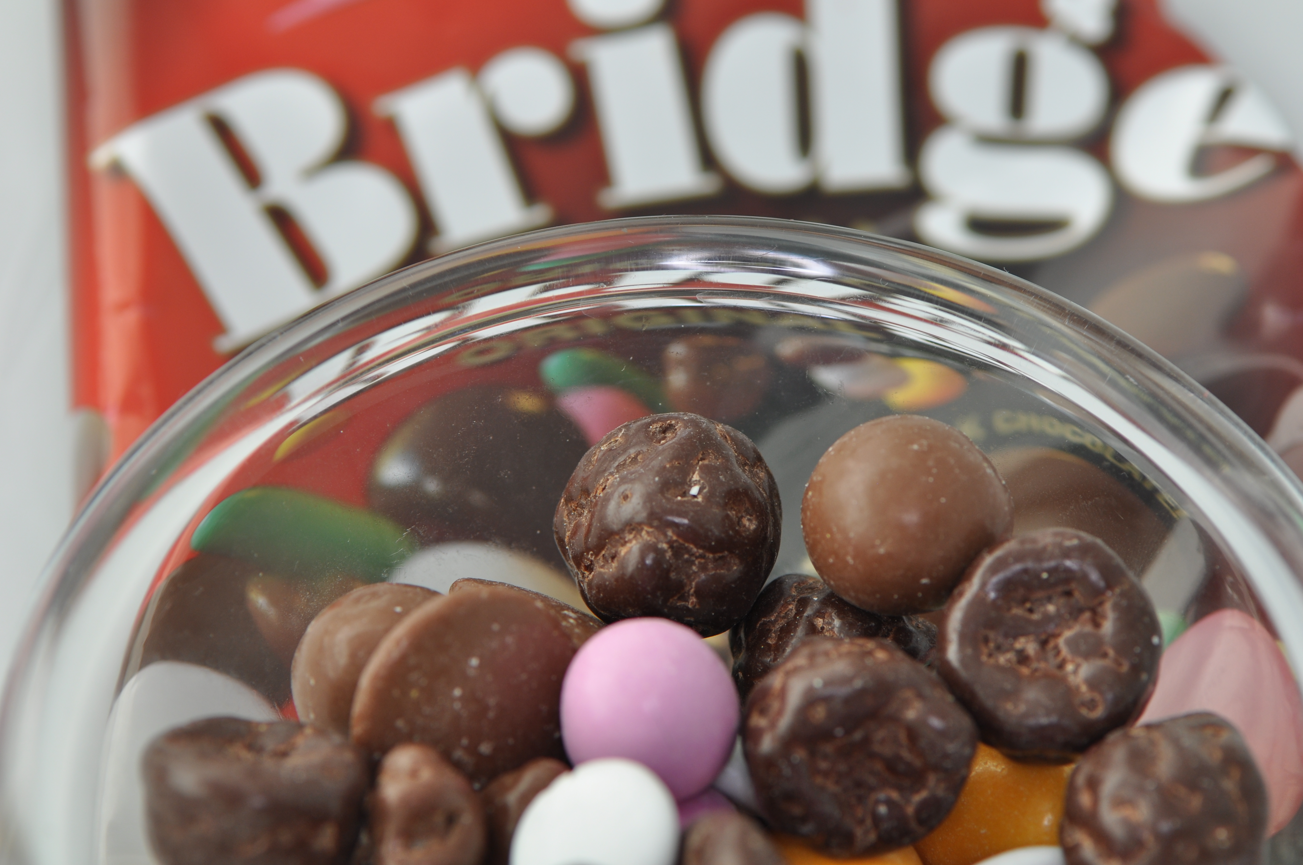 Bridgeblandning, a Swedish candy mixture